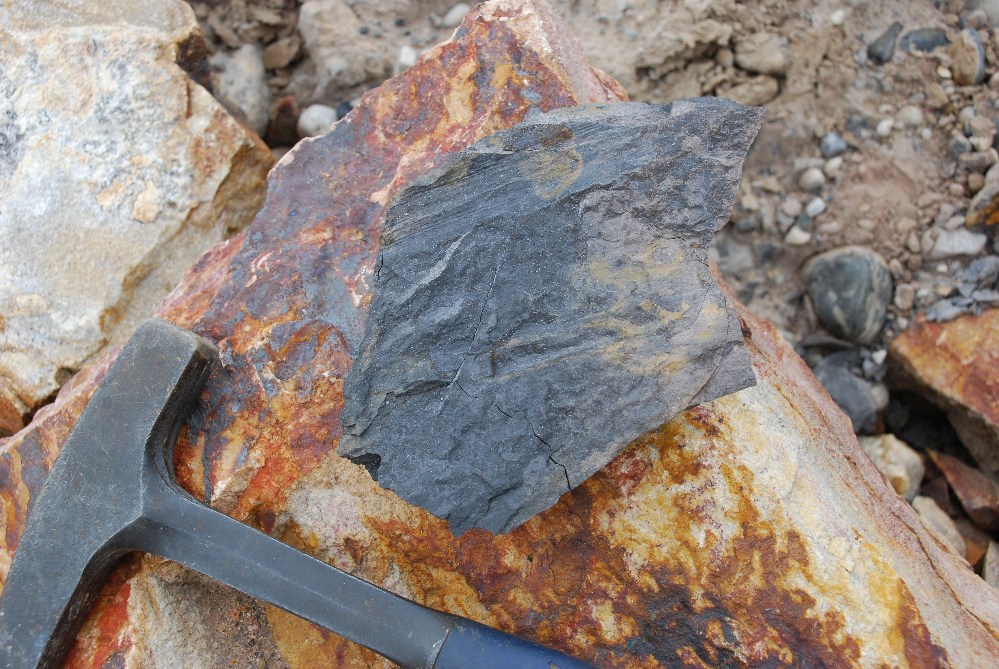 Sample of the organic shale of the Chipaque Formation, from a quarry along the road to Villavicencio between Chipaque and Cáqueza, Cundinamarca, Colombia